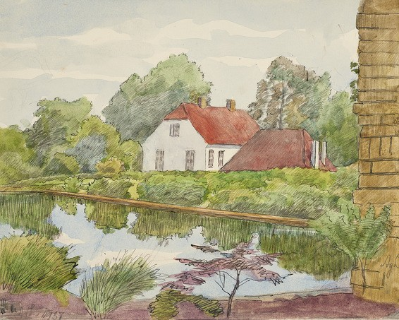 Watercolour of Marienborg north of Copenhagen, Denmark. The painter , a cousin of C. F. David's mother, was his god mother.